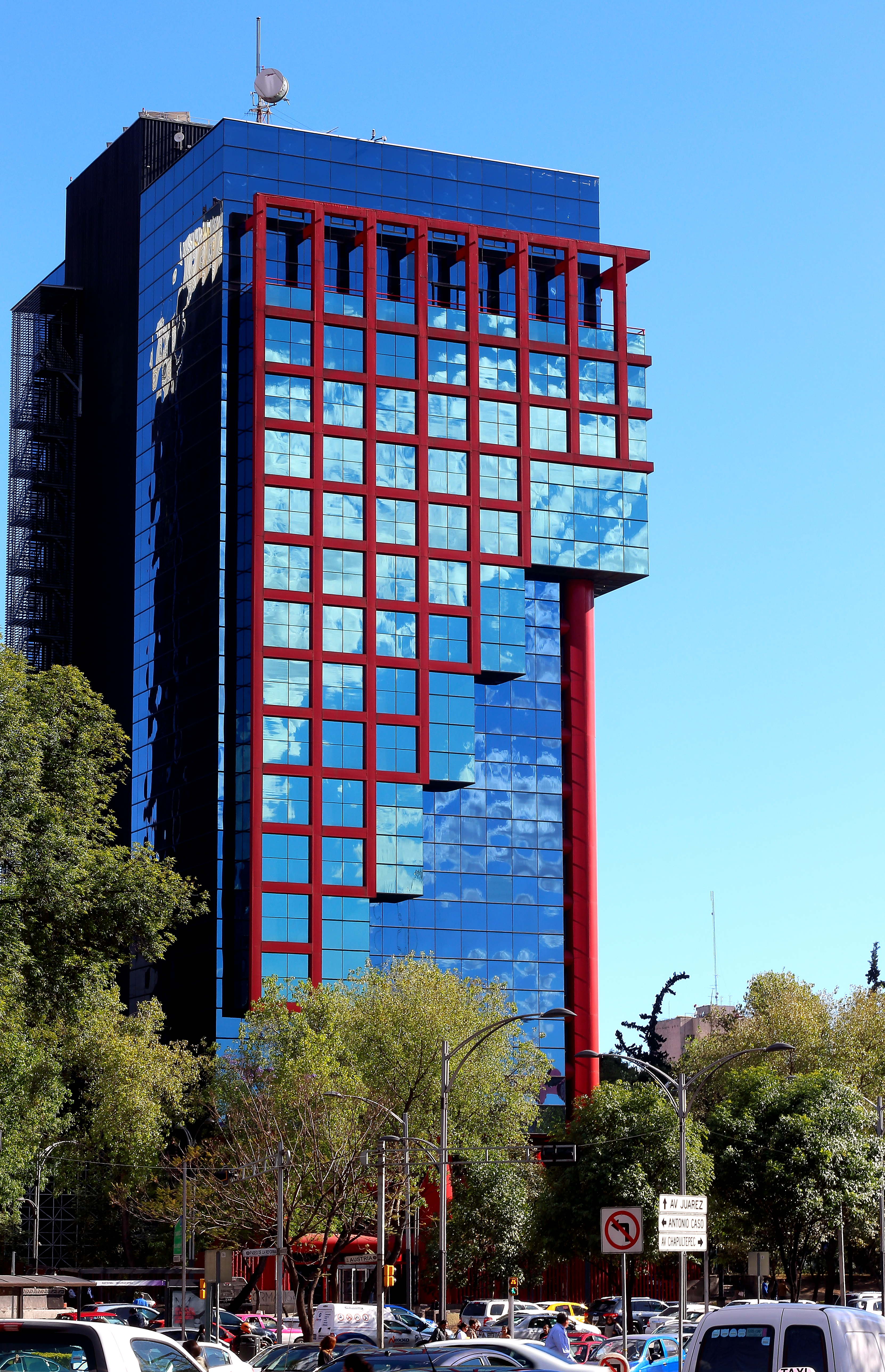 The CFE building in Mexico City